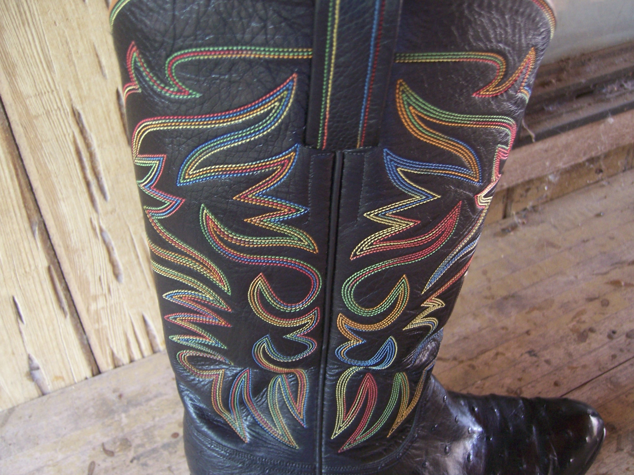 closeup of Dunn's boot stictching